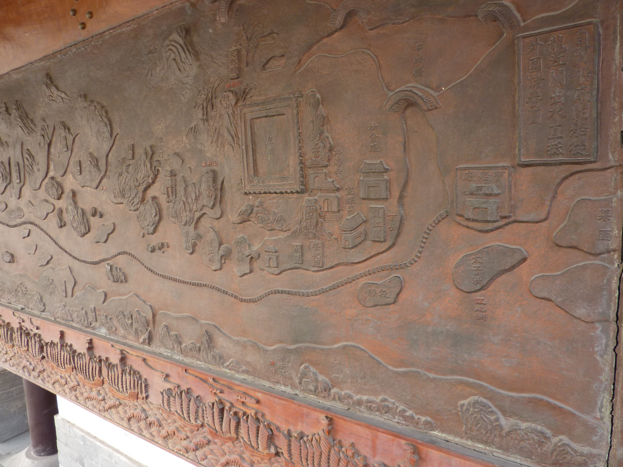 Fragments of the relief running along the northern wall of the Treasure Boat Shipyard Park, showing the route of Zheng He's voyages and various events along it.